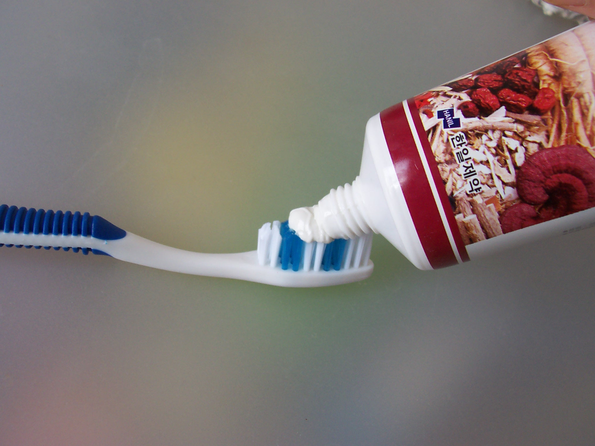 Korean Ginseng Toothpaste